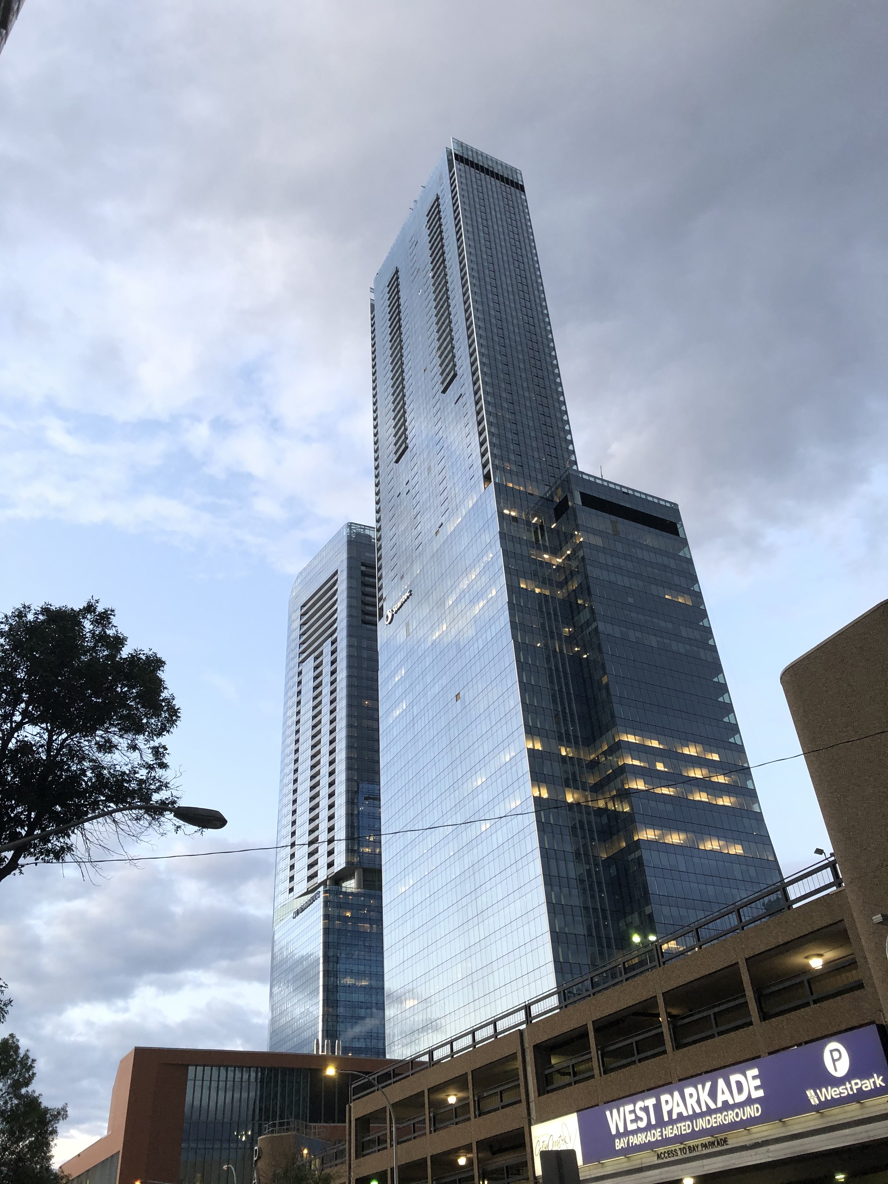 Stantec Tower September 2019